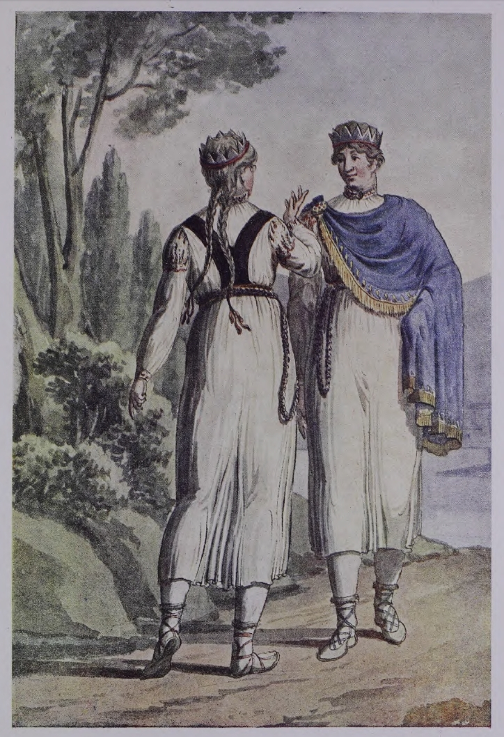 Curonian Queens. Watercolor painting by R. Kalniņš after Otto Huhn.